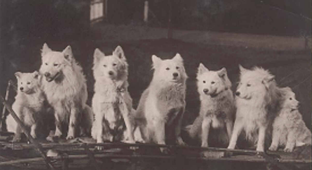 Первое потомство английских самоедов